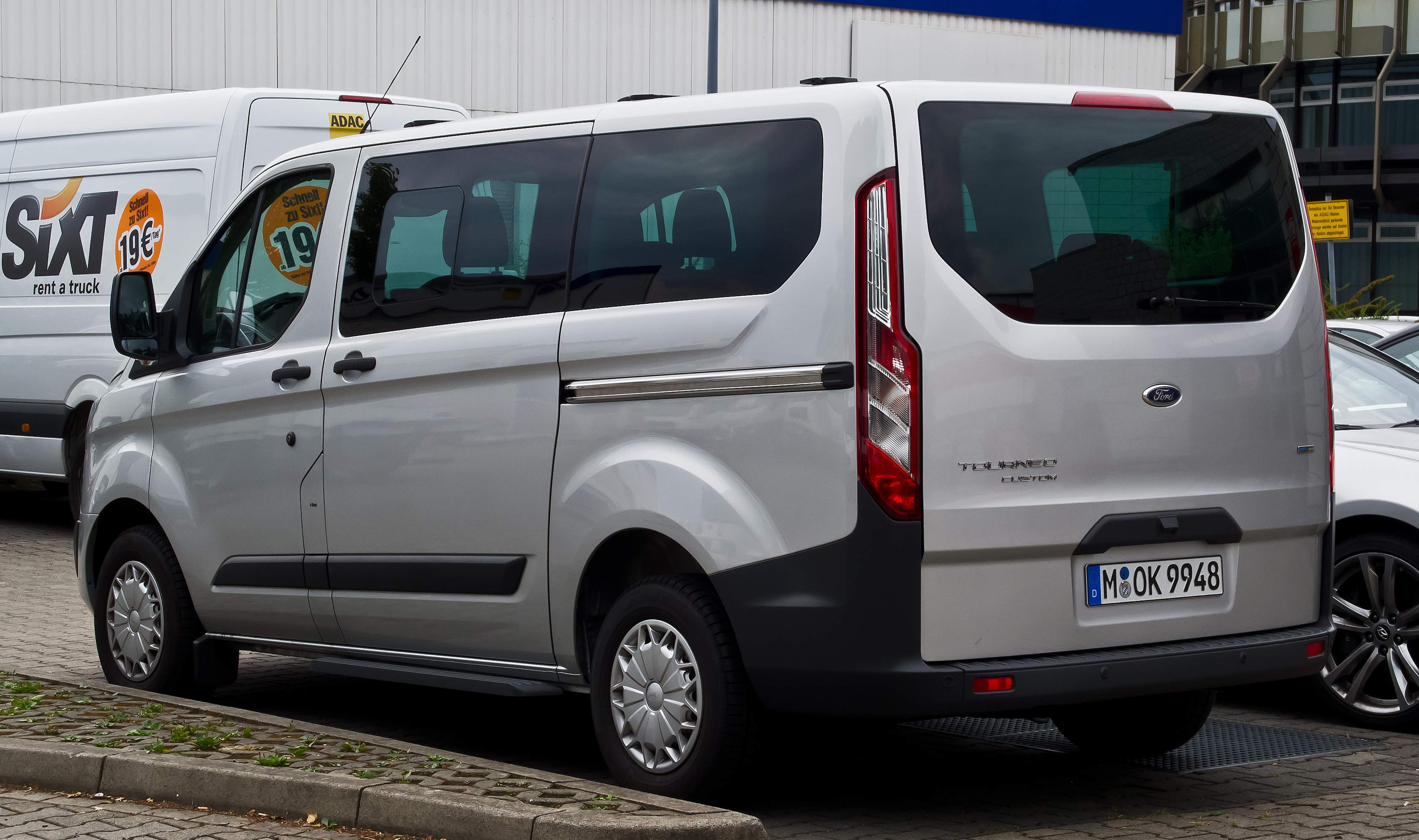 Ford Tourneo Custom Kombi 2.2 TDCi Trend (VII)